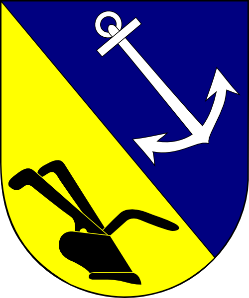 Coat of arms (shield only)of Josef Schinzel, auxiliary bishop of Olomouc, Czech Republic (1922 - 1944).